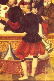 The Last Supper (detail)